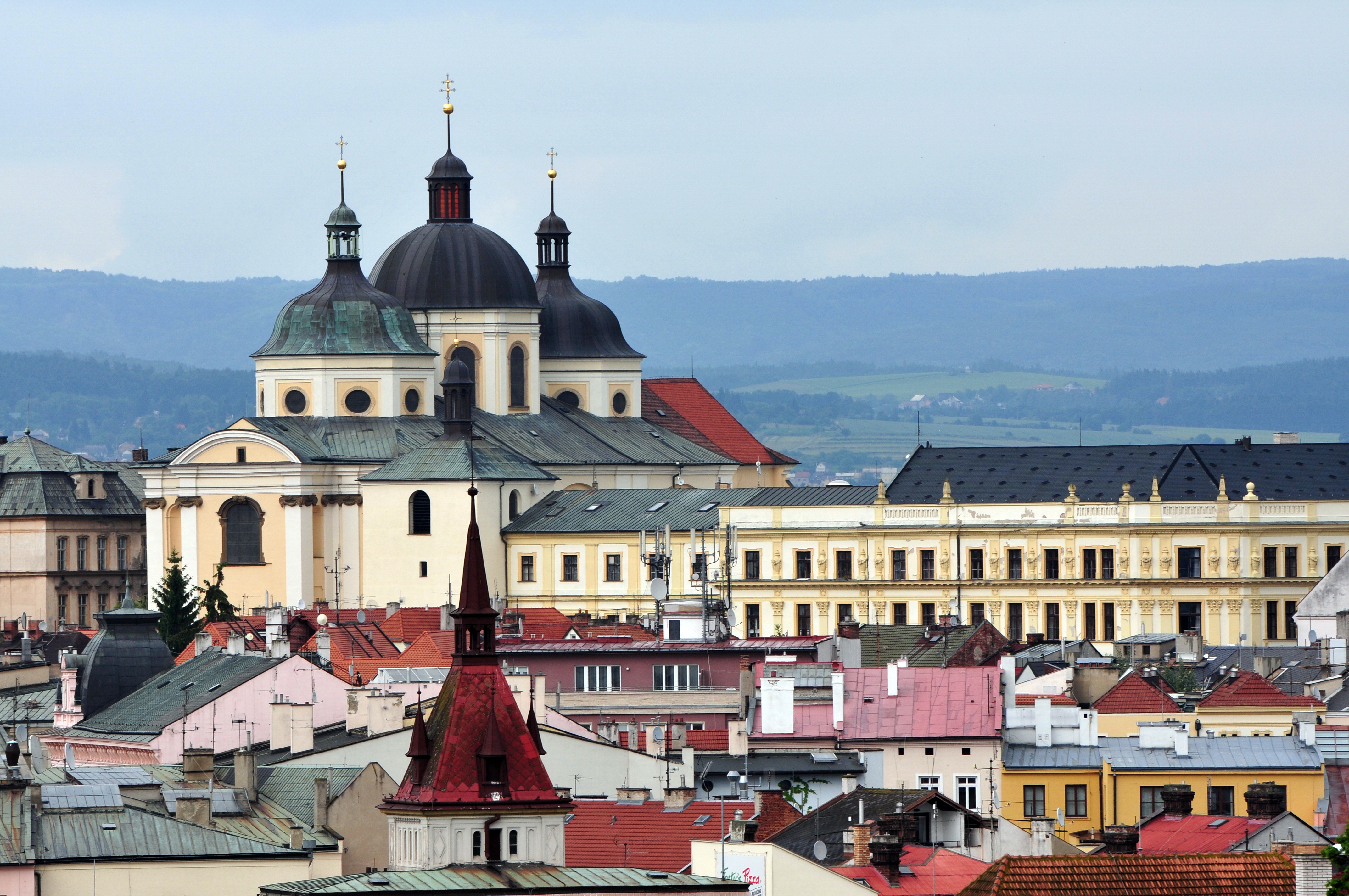 Church of Saint Michael (Olomouc)